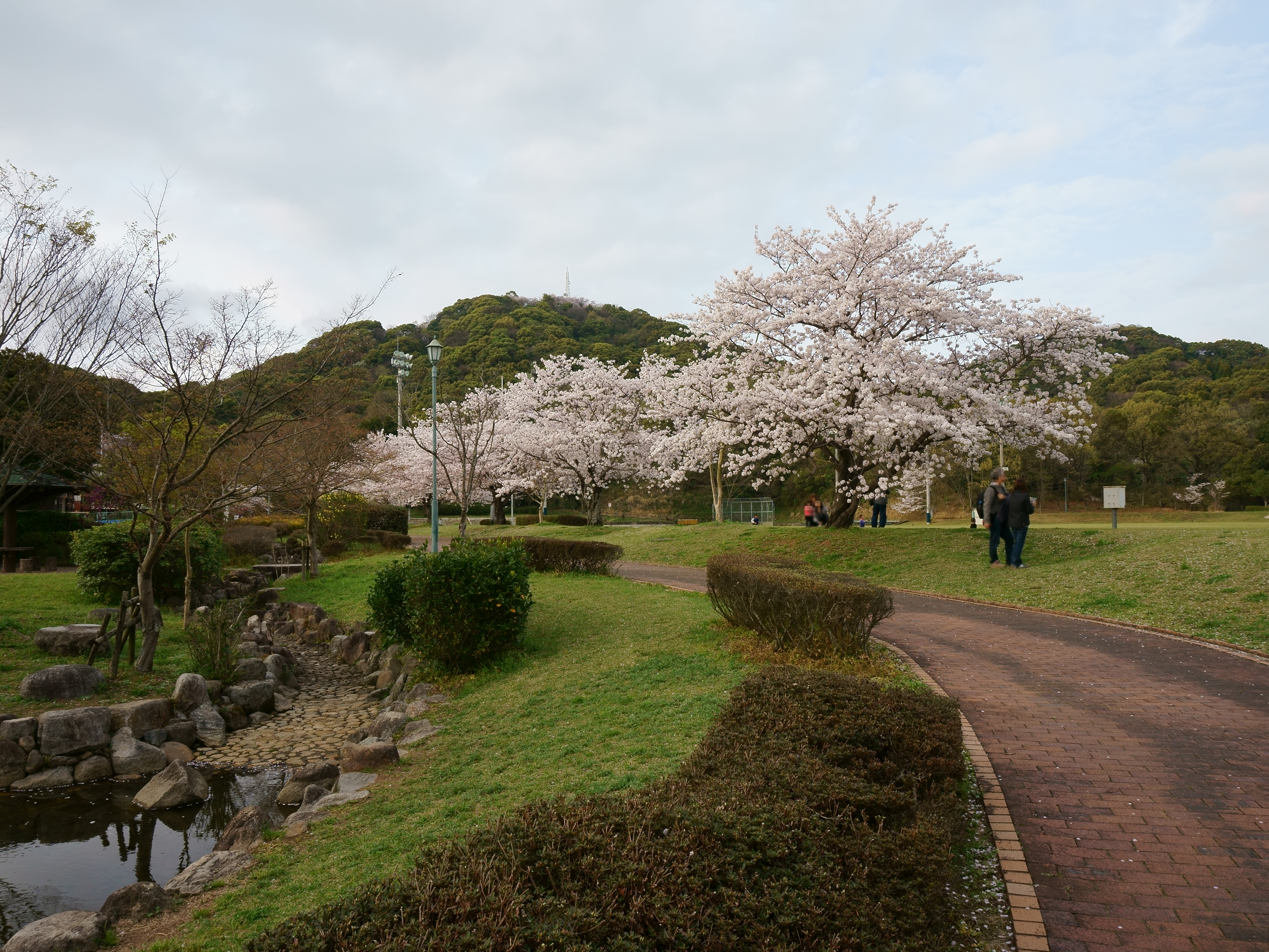 Hinokuma Park in Kanzaki city, Saga prefecture.